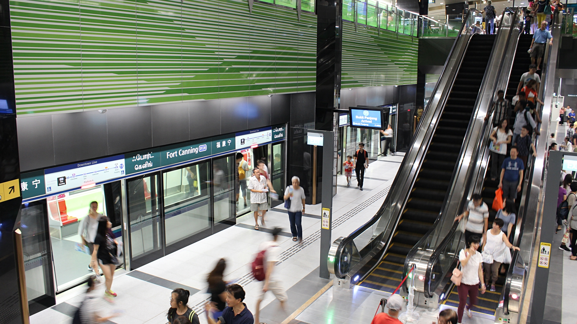 DT20 Fort Canning station